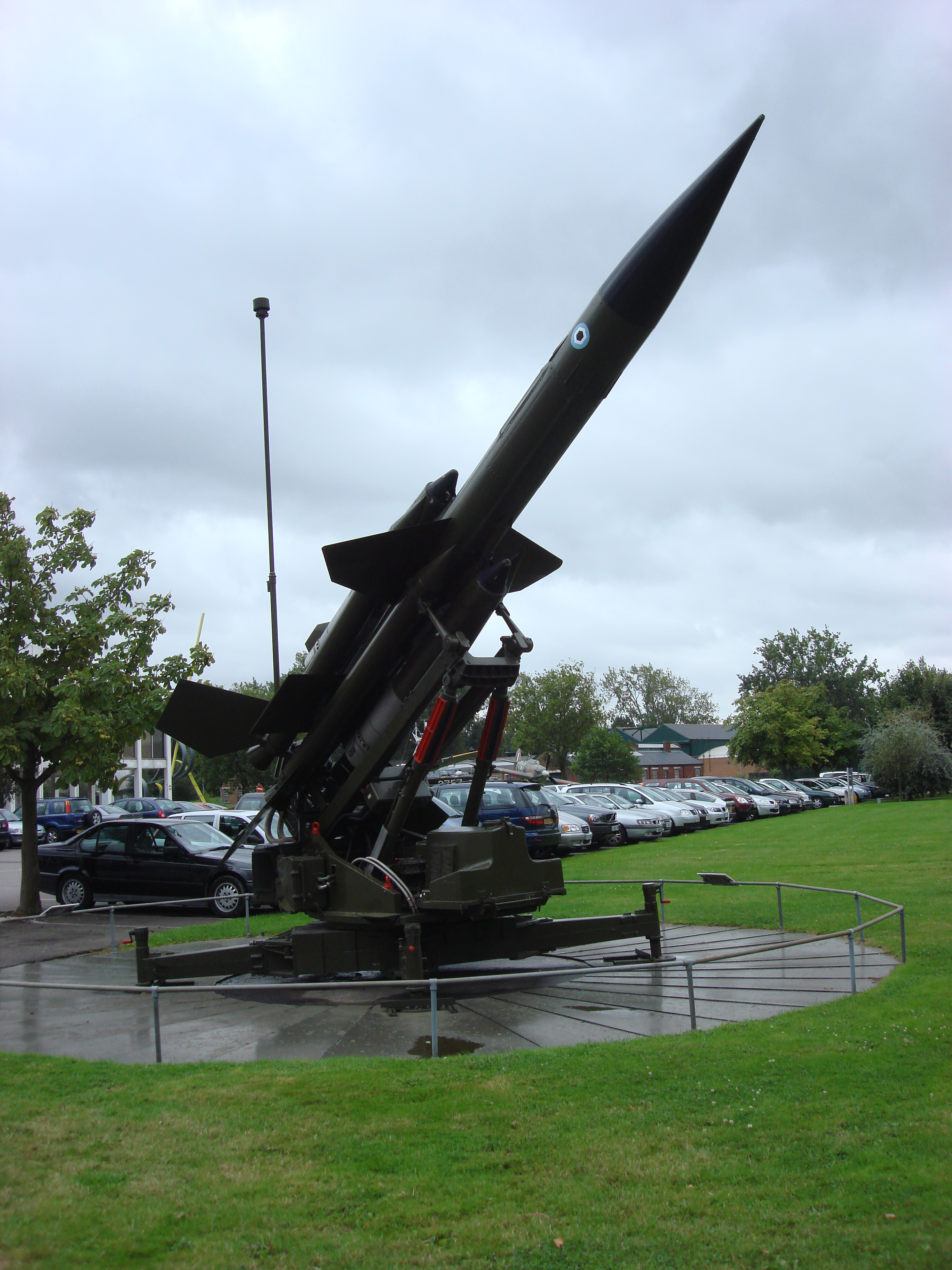 B.A.C Bloodhound, Surface to Air Missile at the RAF Museum in London.